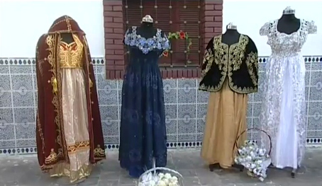 Held traditional Algerian Mostaganem